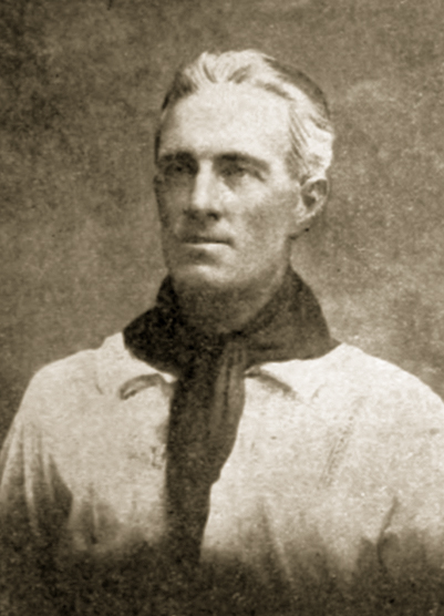 Photograph of James Campbell Besley during his 1914 Second Peruvian Expedition taken from "Moving Picture World" magazine, November 1914